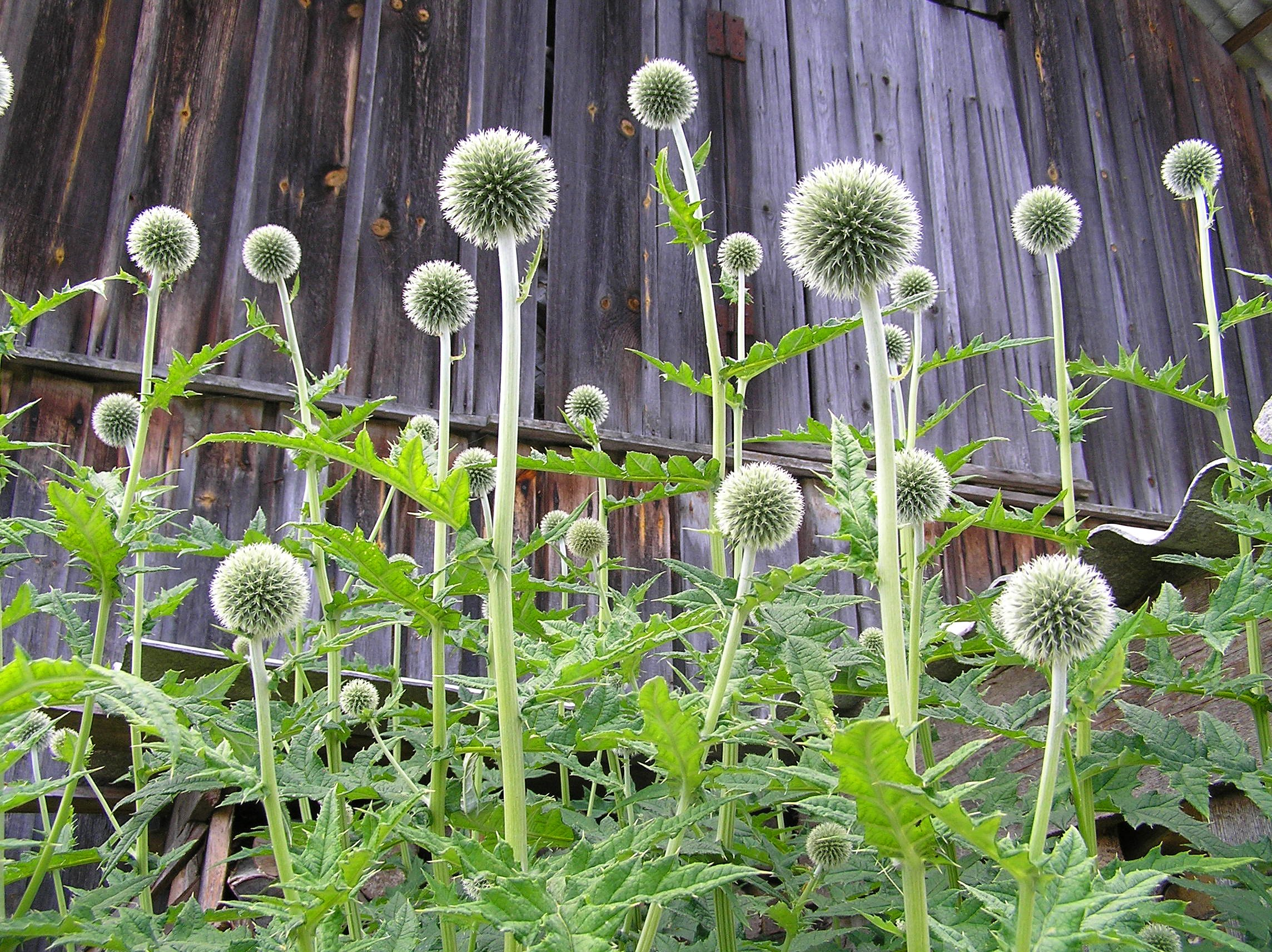 Echinops sphaerocephalus